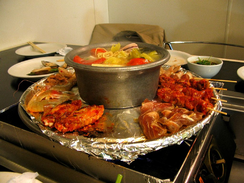 Hot pot with a grill surrounding it. Picture taken April 23, 2005 by Allen Timothy Chang (allentchang).